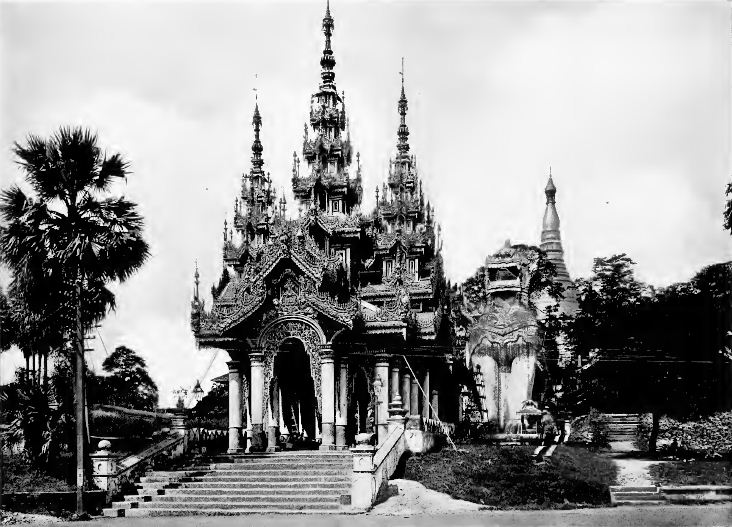 South Stairways of Shwedagon Pagoda, Rangoon